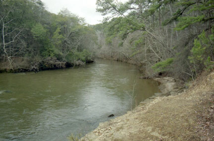 The Chunky River in Dunns Falls Water Park, Lauderdale County.